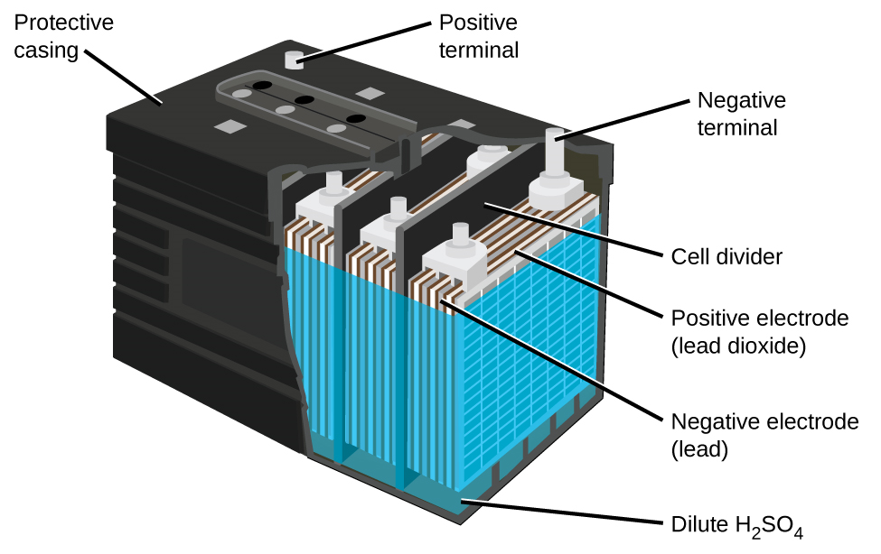 Image or illustration from the book: Chemistry Caption:Missing, please see book Book summary:Chemistry is designed for the two-semester general chemistry course. For many students, this course provides the foundation to a career in chemistry, while for others, this may be their only college-level science course. As such, this textbook provides an important opportunity for students to learn the core concepts of chemistry and understand how those concepts apply to their lives and the world around them. The text has been developed to meet the scope and sequence of most general chemistry courses. At the same time, the book includes a number of innovative features designed to enhance student learning. A strength of Chemistry is that instructors can customize the book, adapting it to the approach that works best in their classroom.